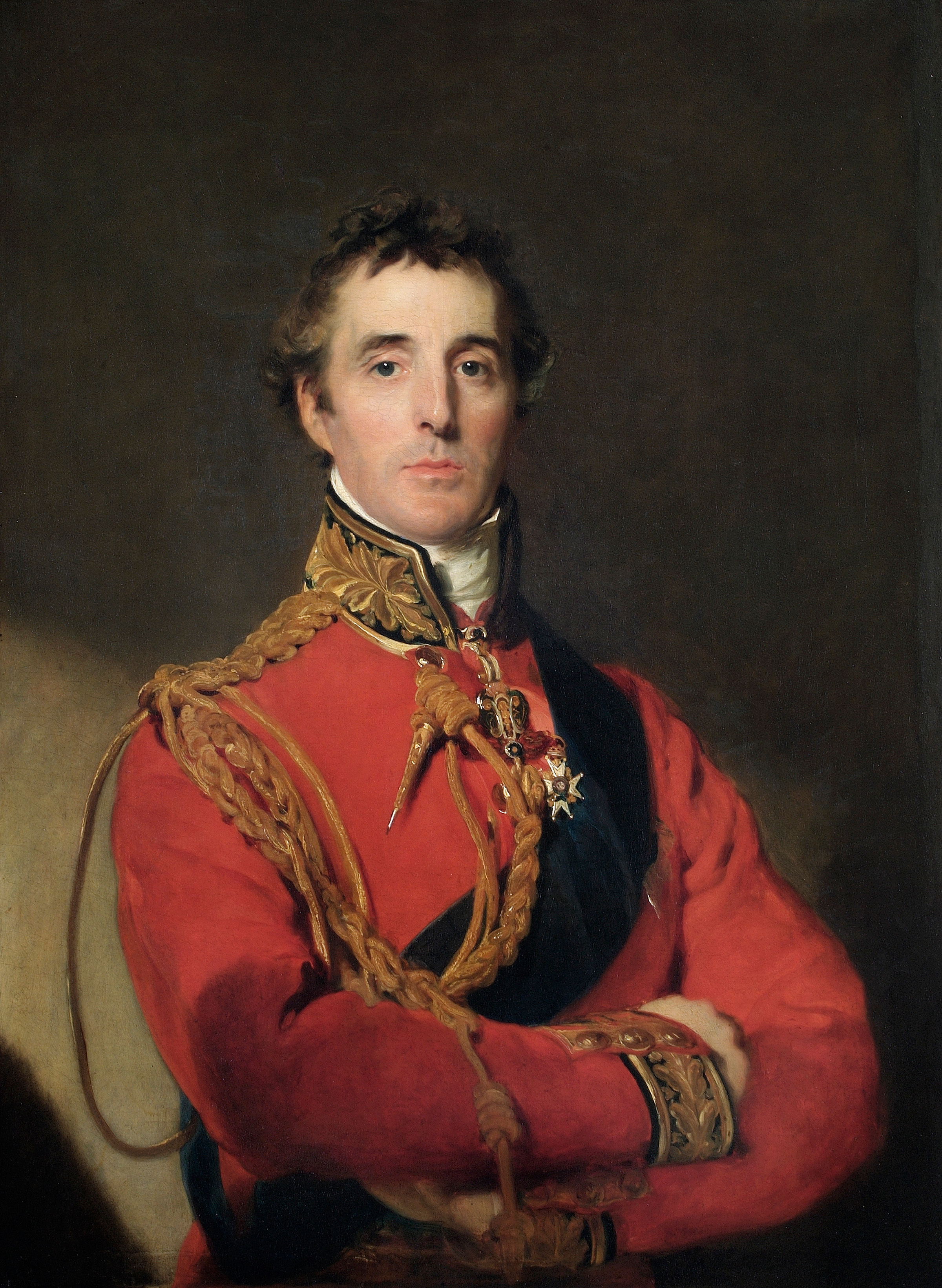 The Duke of Wellington is standing at half-length, wearing Field Marshal’s uniform, with the Garter star and sash, the badge of the Golden Fleece, and a special badge ordered by the Prince Regent to be worn from 1815 by Knights Grand Cross of the Military Division of the Order of the Bath who were also Knights Companion of the Order of the Garter.